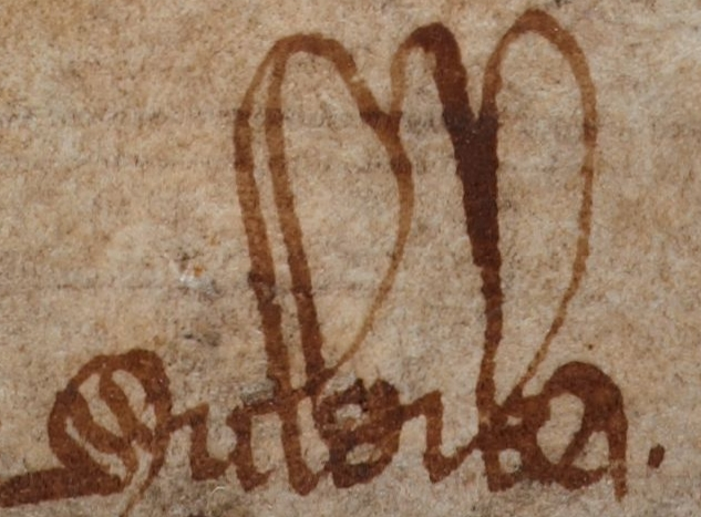 suwika; from the King Alfred’s Old English Version of Augustine’s Soliloquies. (see transcript at the Website of the Faculty of Creative and Critical Studies, University of British Columbia)